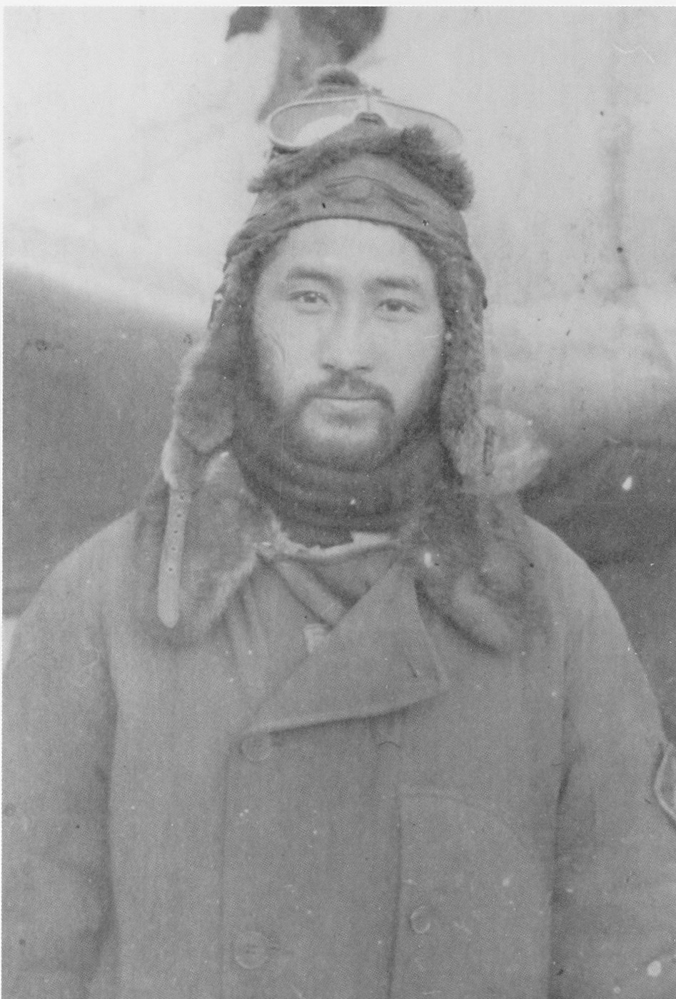 Imperial Japanese Navy fighter ace Warrant Officer Kiyonobu Suzuki. He was officially credited with nine solo fighter combat victories in the Sino-Japanese and Pacific Wars. This picture is of Suzuki while serving with the 12th Air Group in China between March and September 1938.